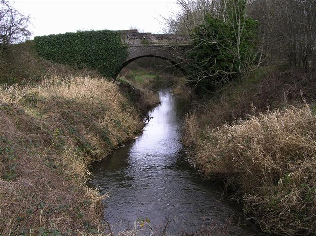 Bridge over Ulster Canal, Tyholland One of the remaining stone built bridges over the canal still stands